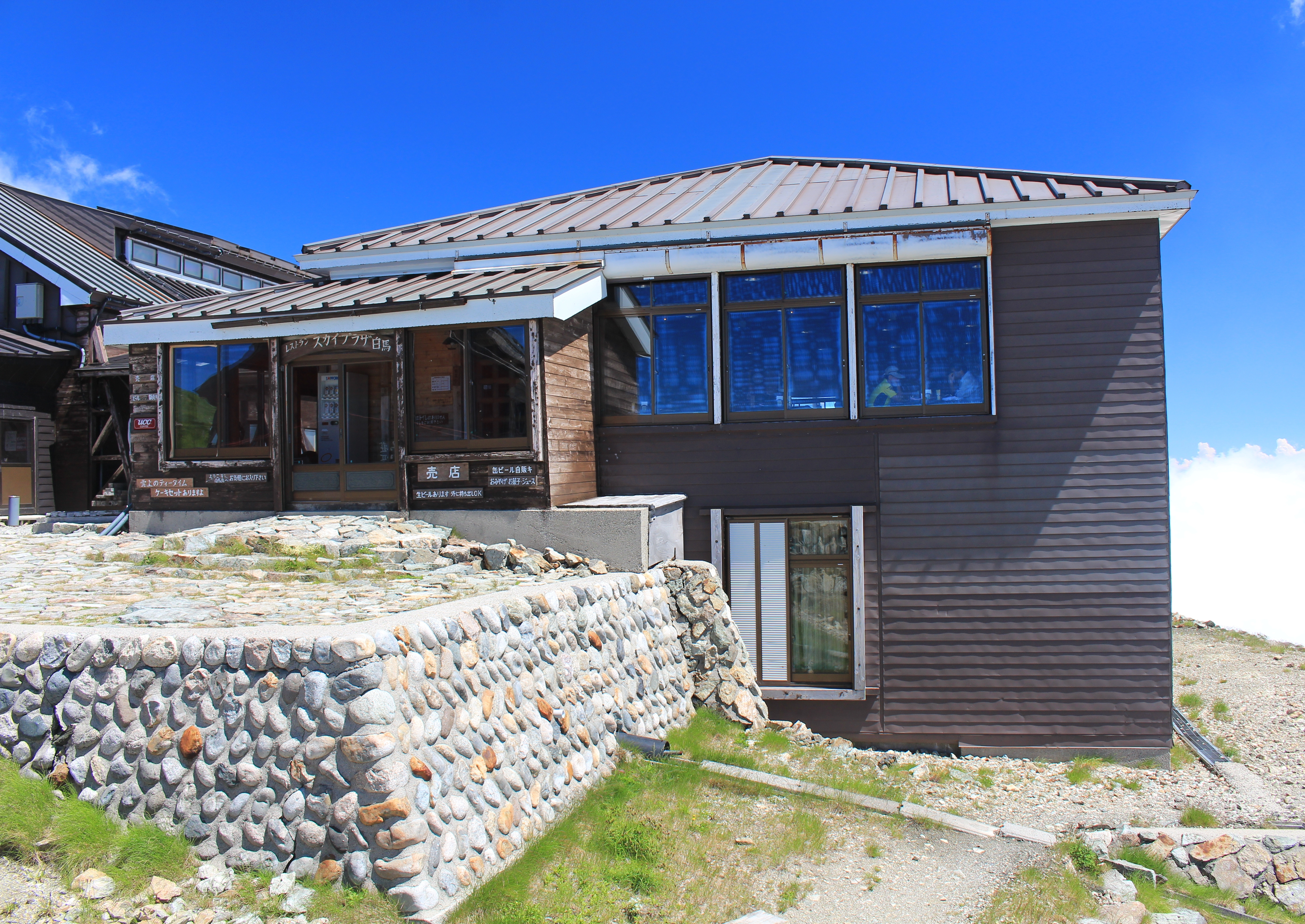 Restaurant skyplaza Hakuba of Hakuba Sansō, in Mount Shirouma, Hakuba, Nagano prefecture, Japan.